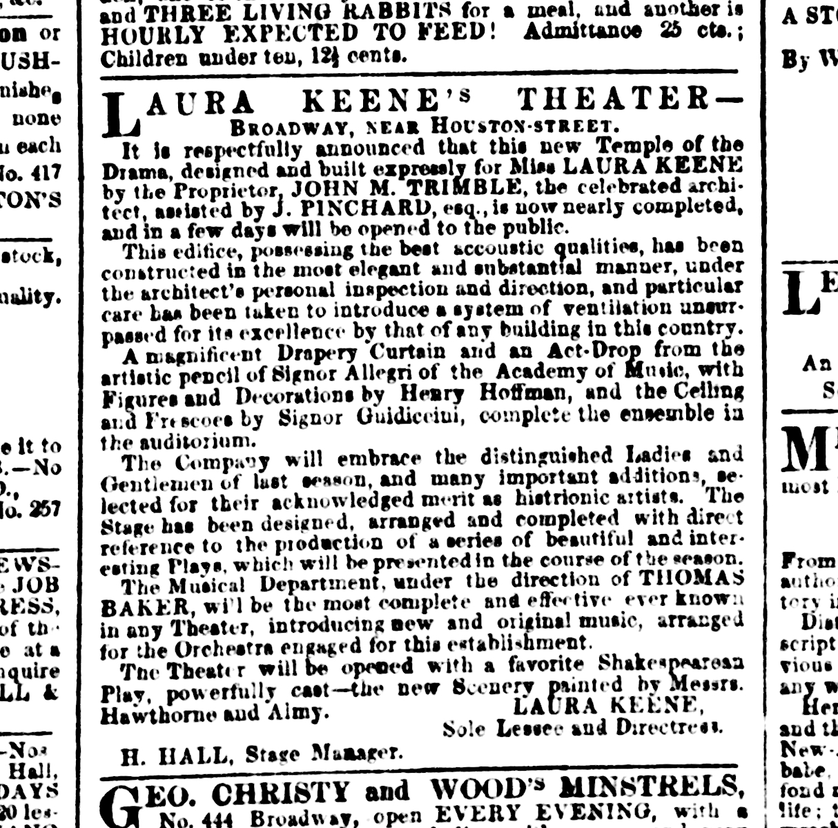 Newspaper advertisement for Laura Keene's Theater